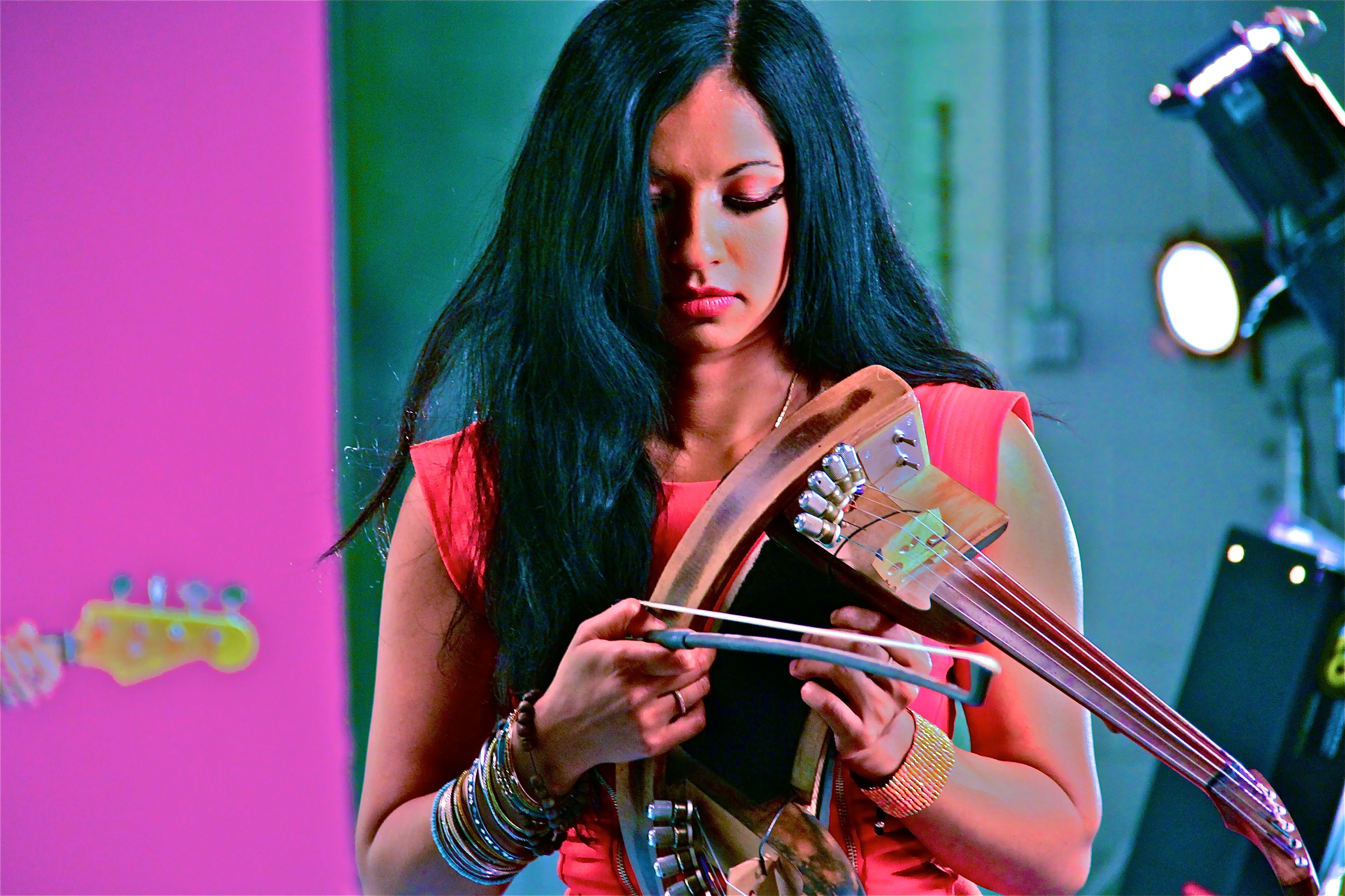 Gingger Photo